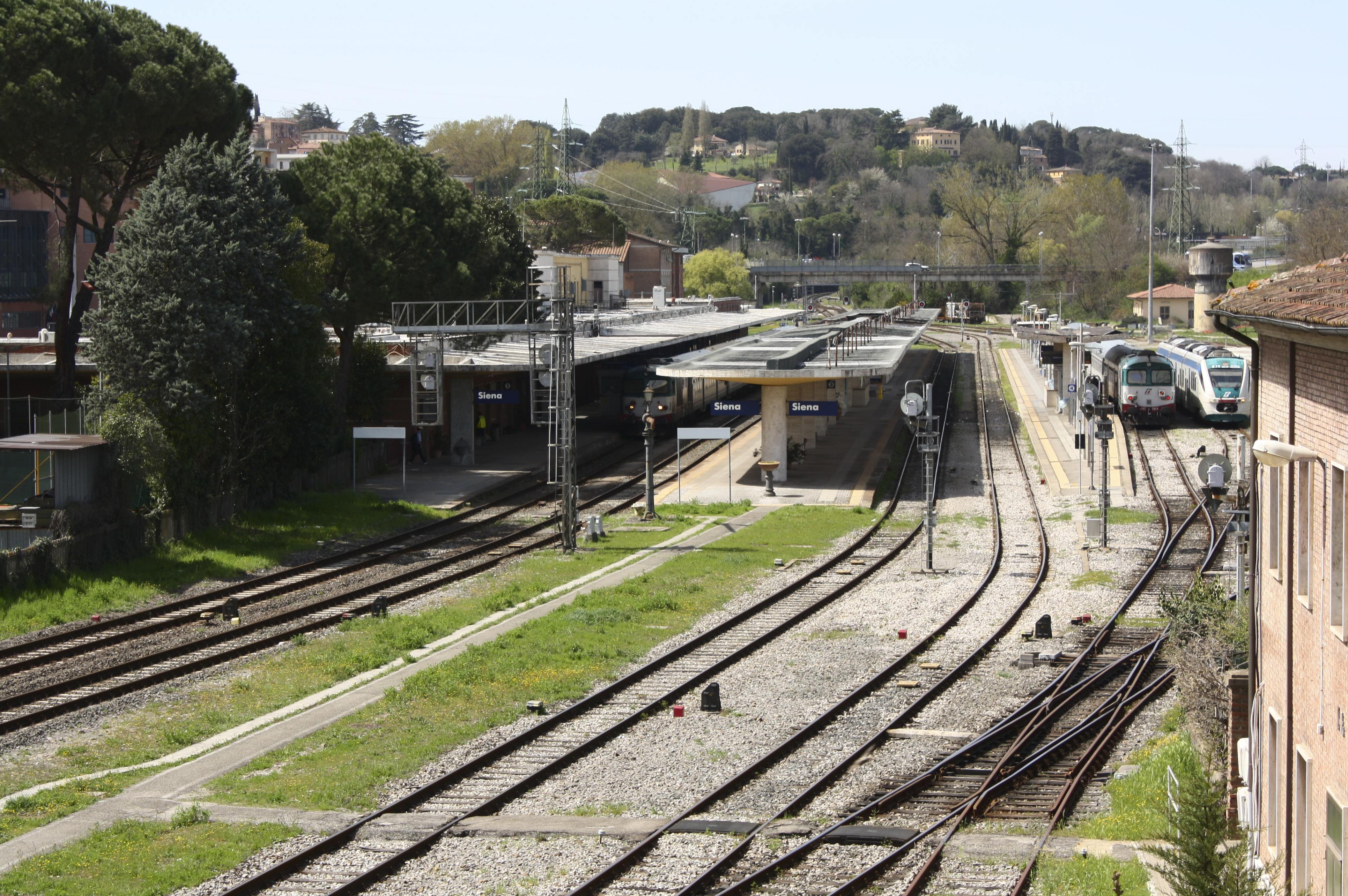 Siena train station